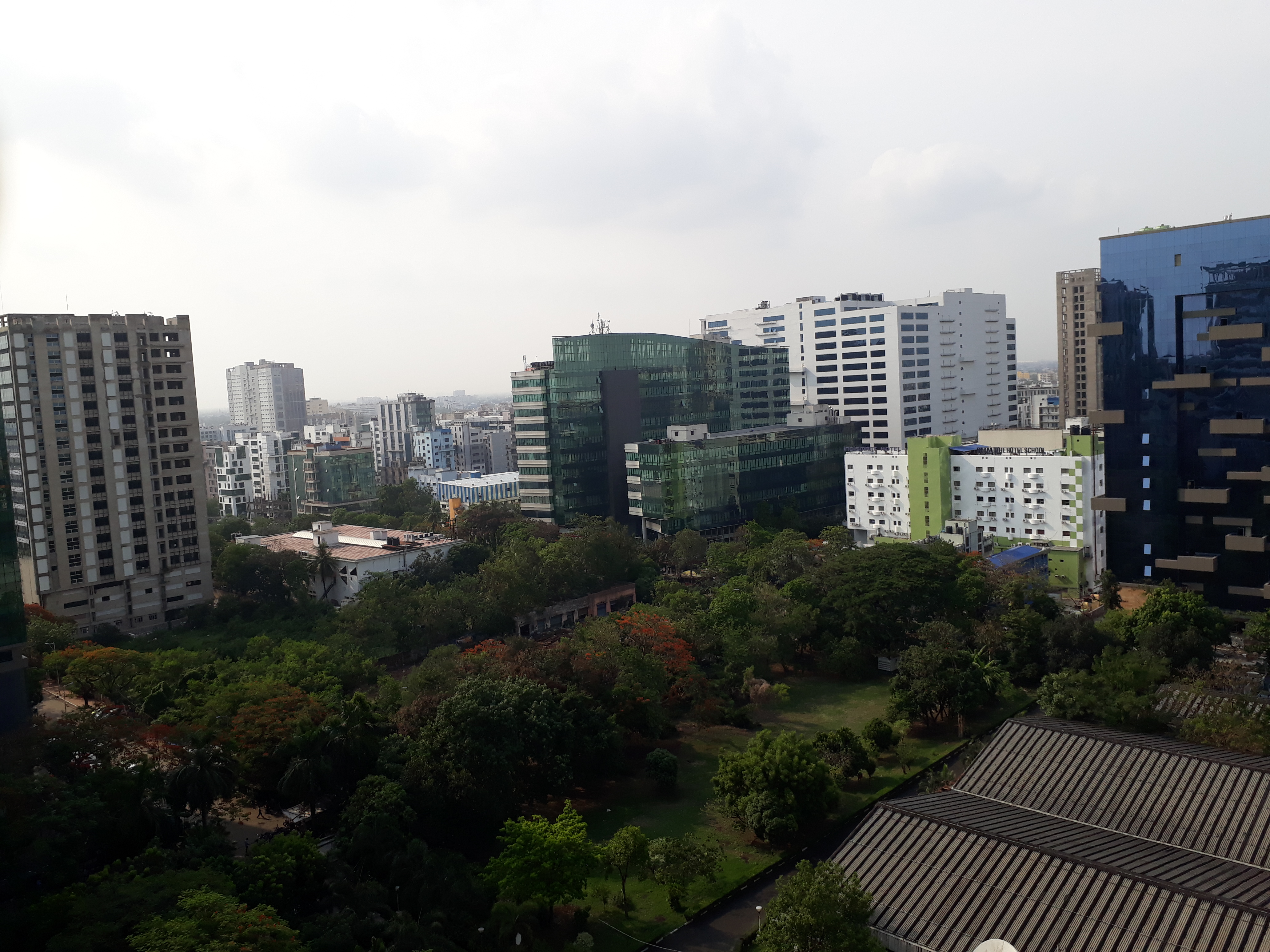 The skyline of Saltlake Sector V, the technology hub of the city